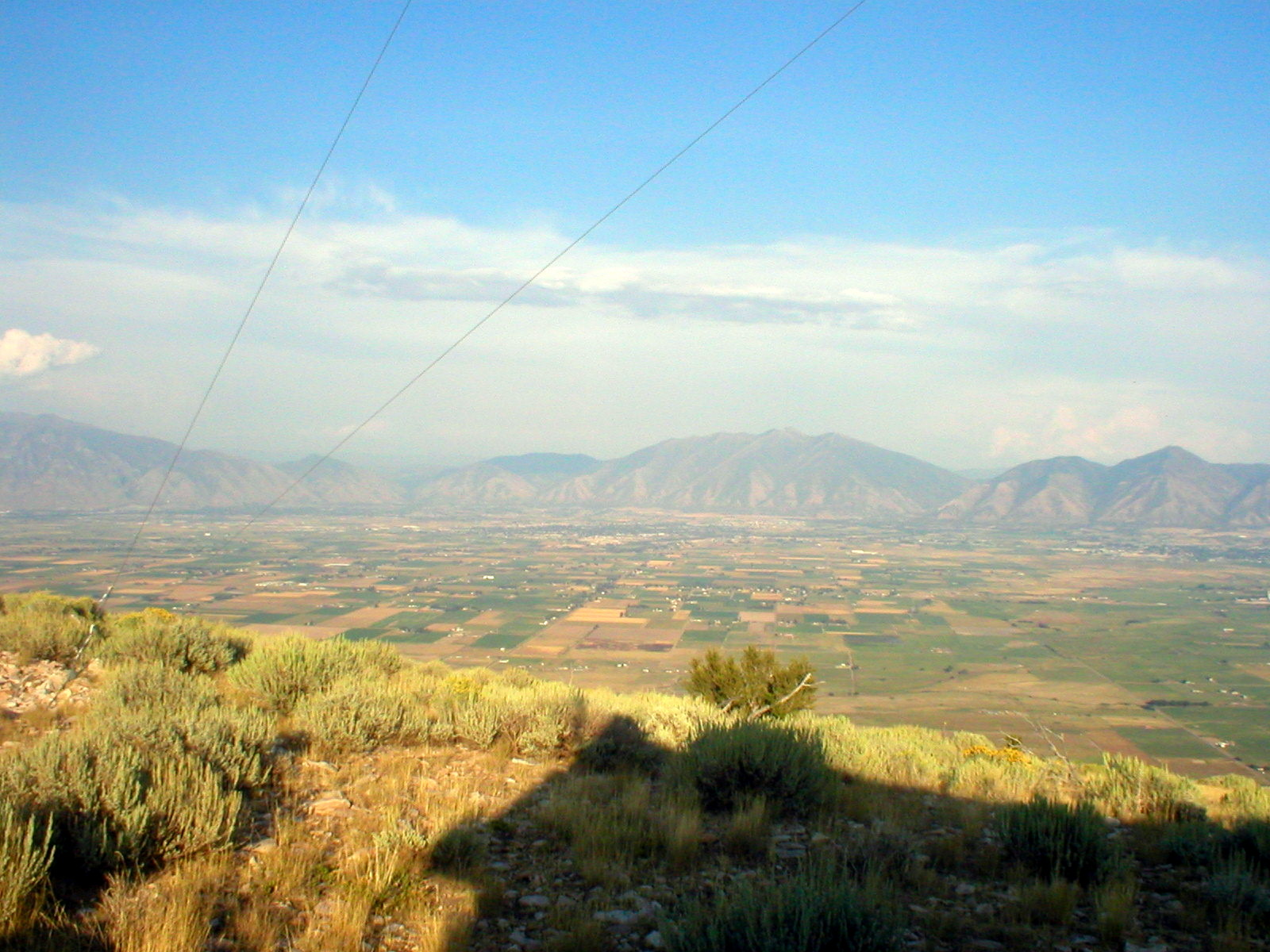 Utah Valley, as seen from West Mountain. (city of Spanish Fork) (View due east, per road lineage. View of Wasatch Range)